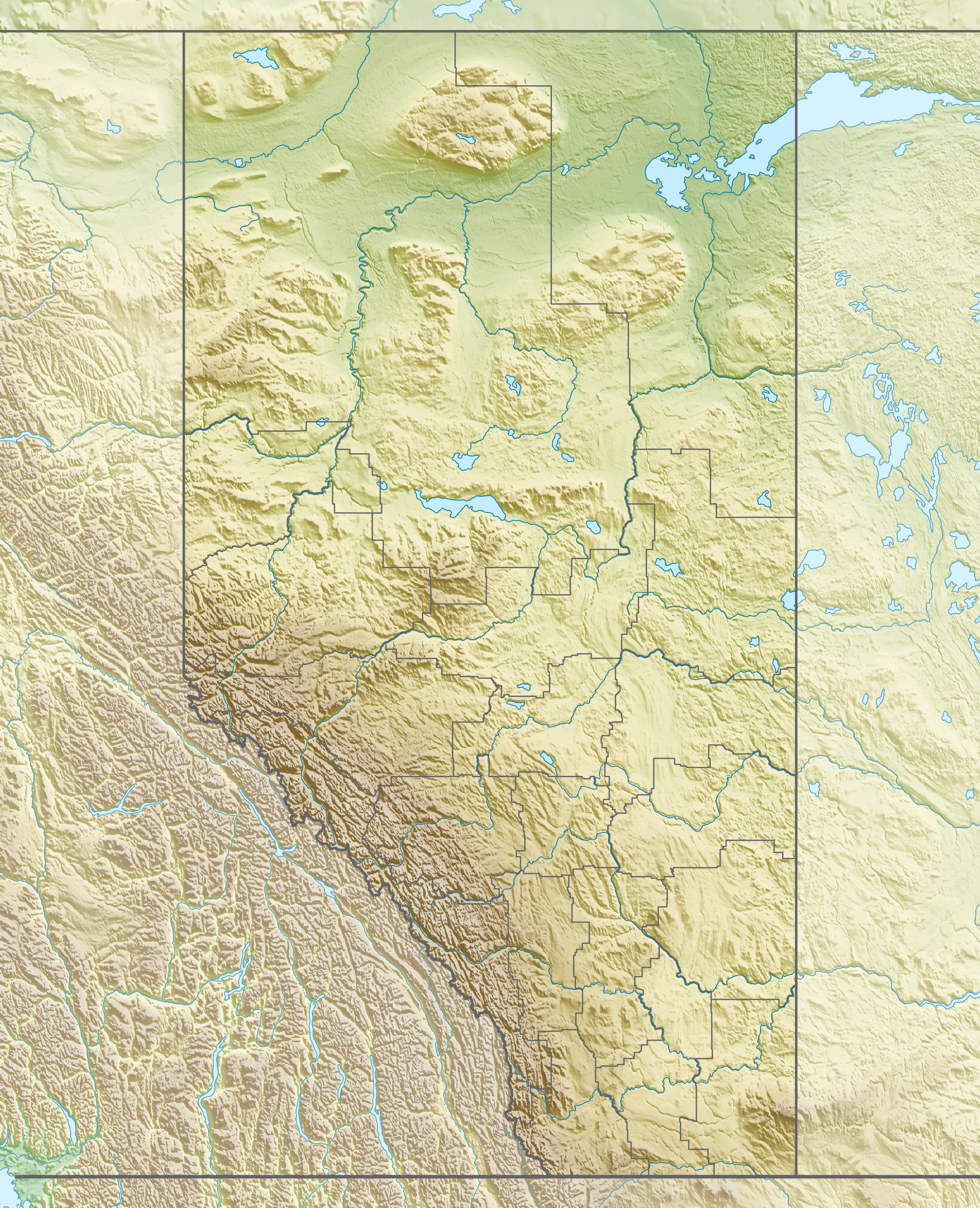 Physical location map of Alberta, Canada Equirectangular projection, N/S stretching 170 %. Geographic limits of the map: N: 60.3° N S: 48.7° N W: 123.0° W E: 107.0° W